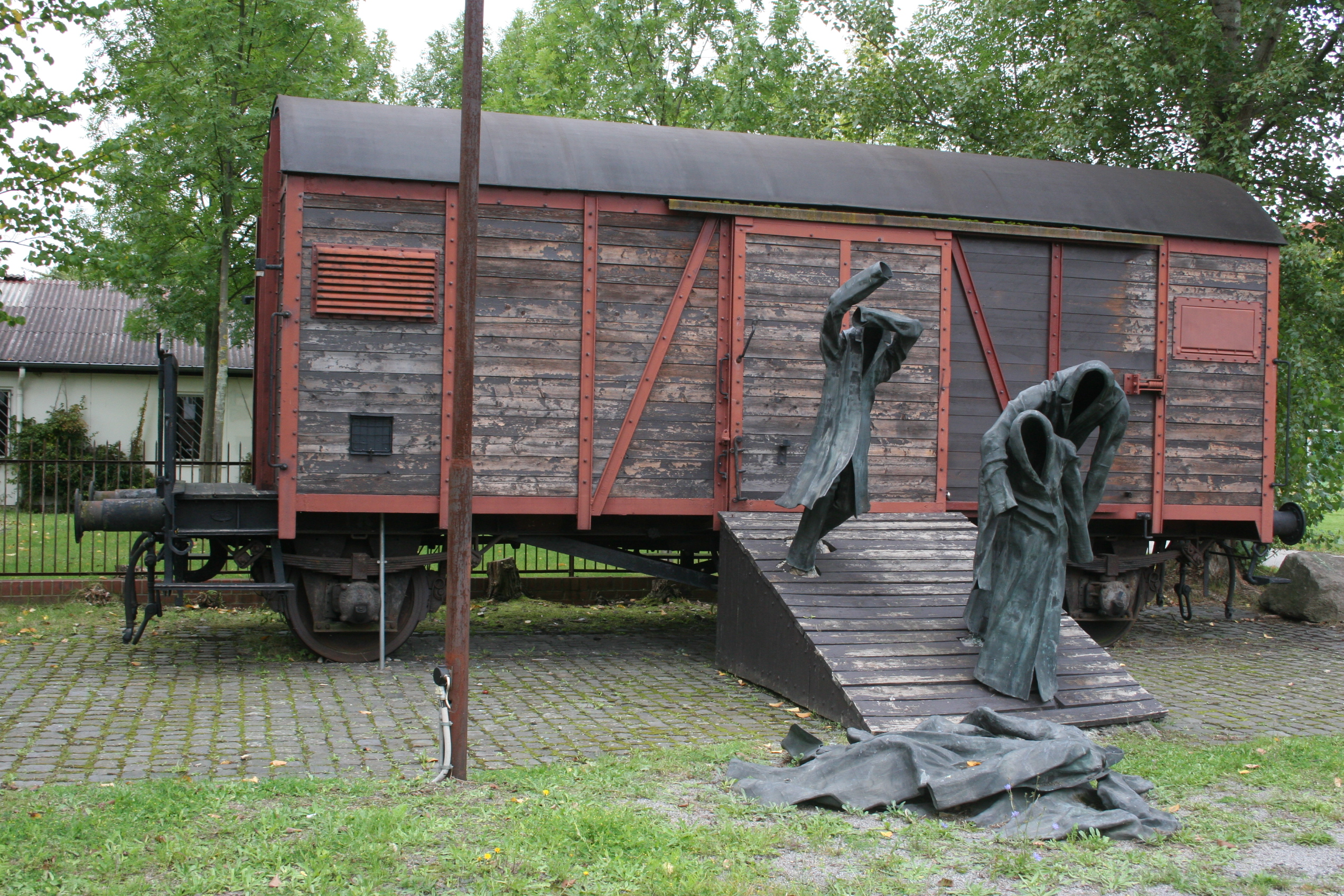 Holocaust Memorial "Die Rampe" - E R Nele - Kassel, Germany